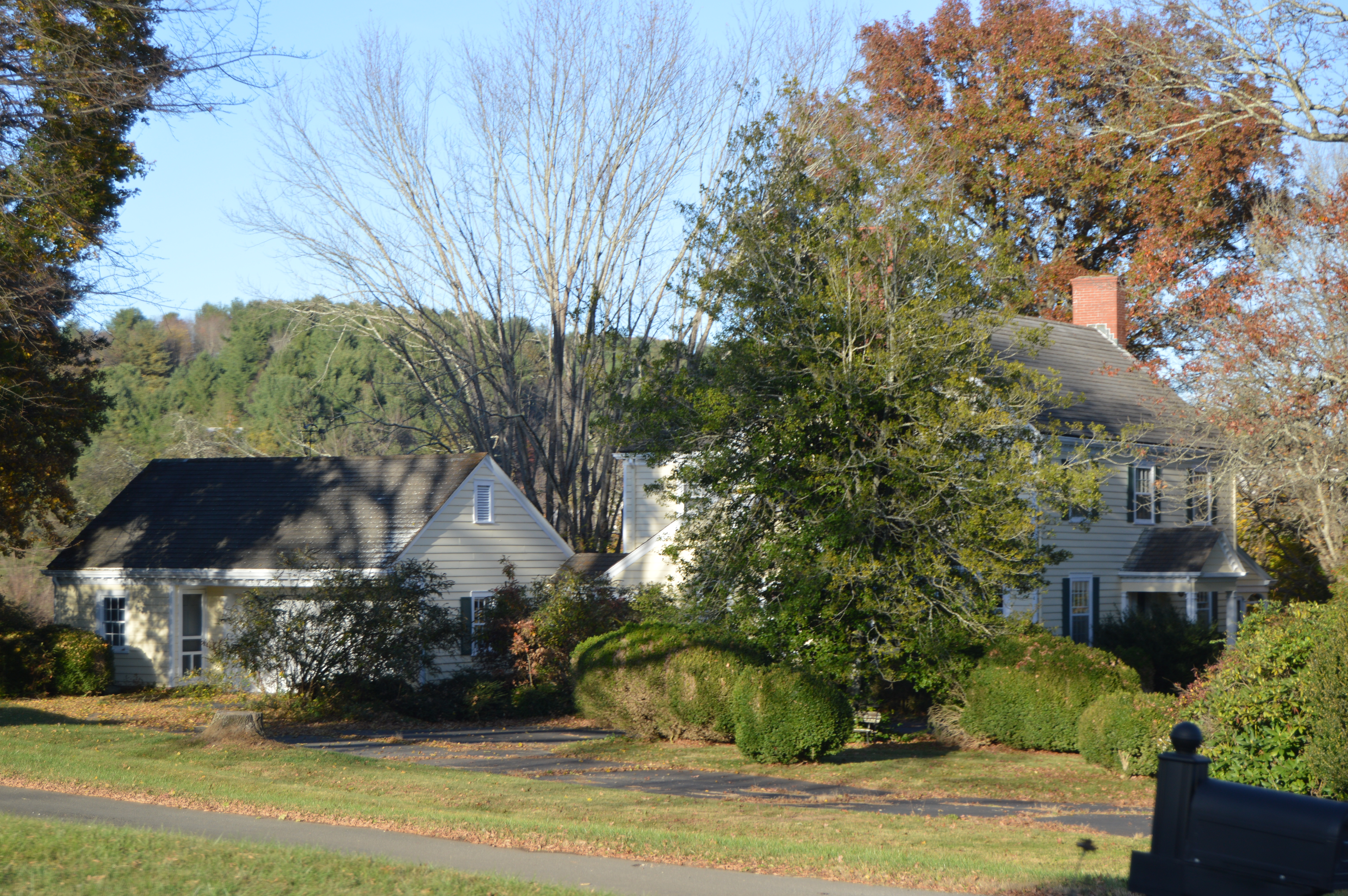 Roadside view of the A. G. Pless, Jr. House, located at 942 Glendale Road in Galax, Virginia, United States. Built in 1939, it is listed on the National Register of Historic Places.